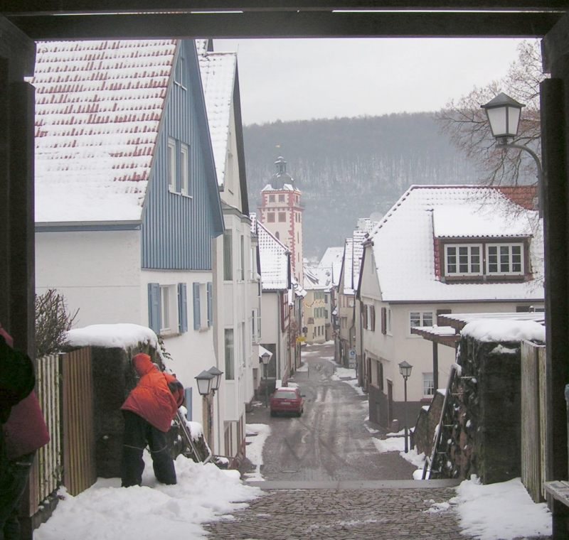 Mosbach, Baden, Germany, in Winter